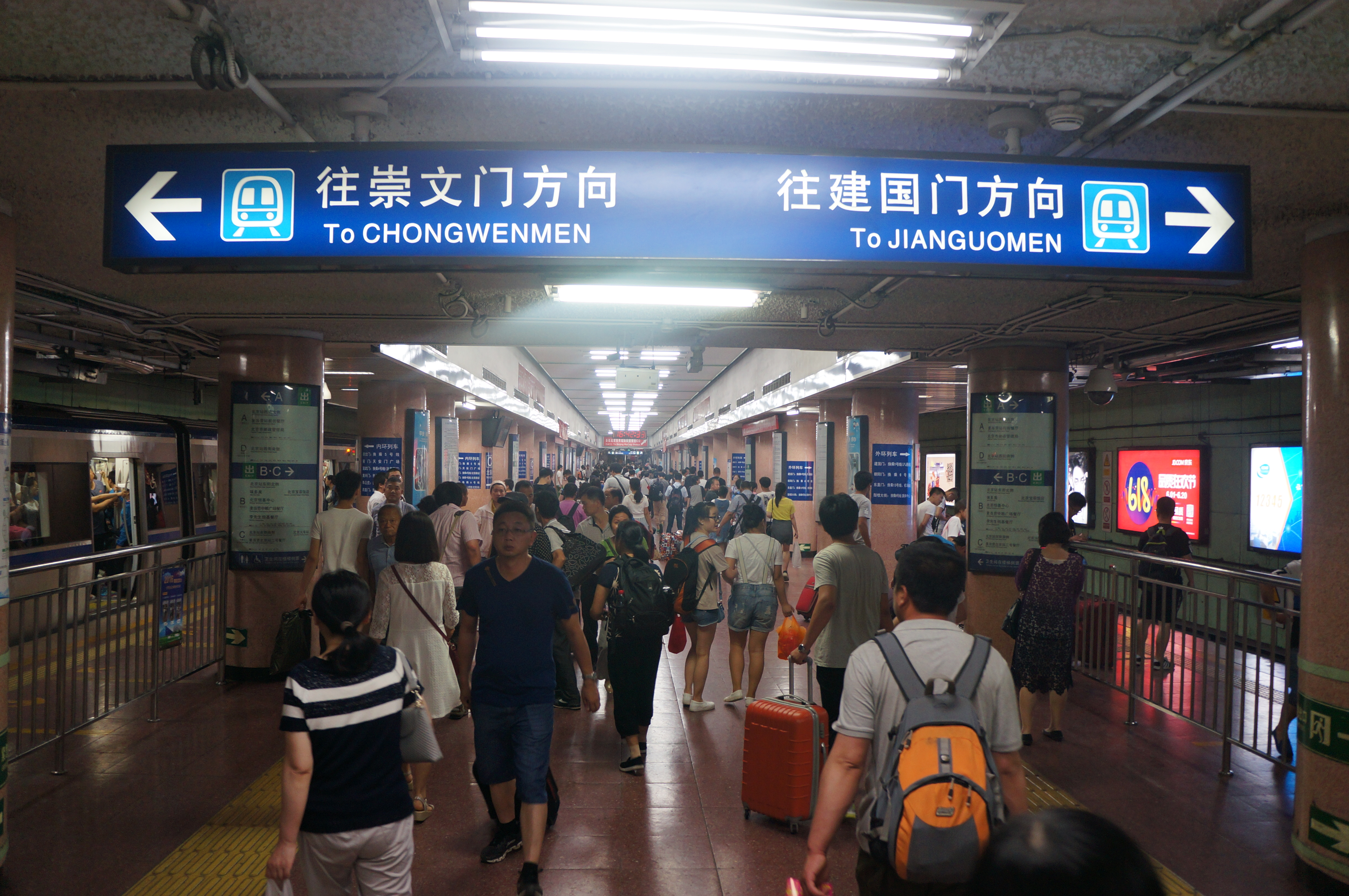 201606 Platform of Beijing Railway Station Station